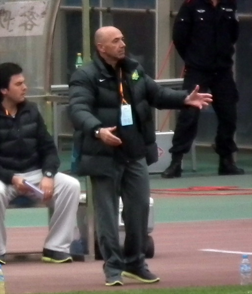 Beijing Guoan headcoach Jaime Pacheco 中文（中国大陆）: 北京国安主教练哈伊梅·帕切科在2011赛季中超联赛第一轮客场与江苏舜天的比赛中